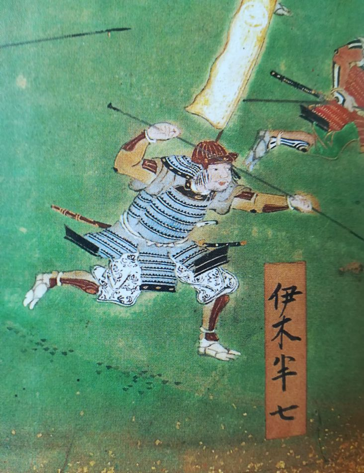 Hanshichi (Tookatsu) Iki